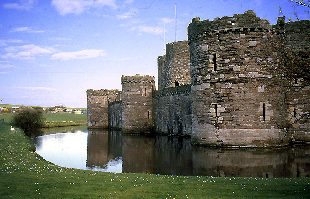 Beaumaris Castle. The castle is situated in the south east section of the square. This view is the north western corner of the castle.